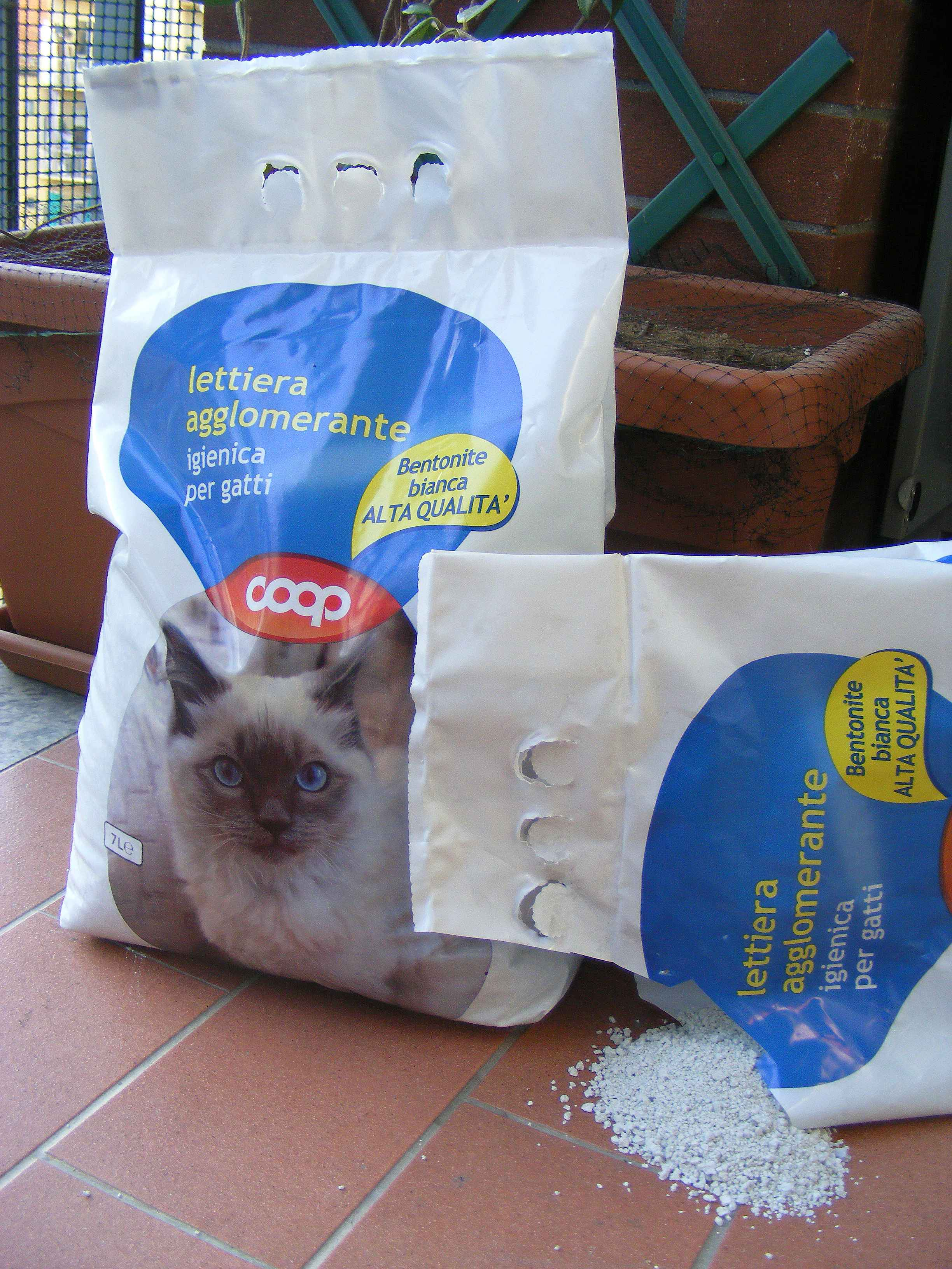 Bentonite used as cats' litter